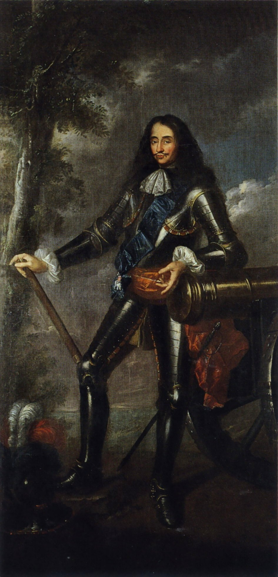 Frederik Magnus van Salm (1607-1673), painted for the Gouvernors Palace in Maastricht by Johann Valentin Tischbein (after contemporary portraits?), ca 1750. Museum collection of Schloss Fasanerie, Fulda, Germany.